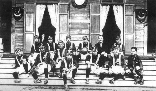 Early Siamese football team.